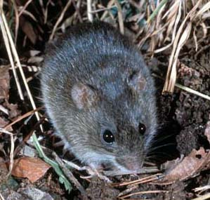 A marsh rice rat (Oryzomys palustris) in marshy vegetation. Judged from the grayish color, this is subspecies palustris or texensis, not one of the Florida forms.